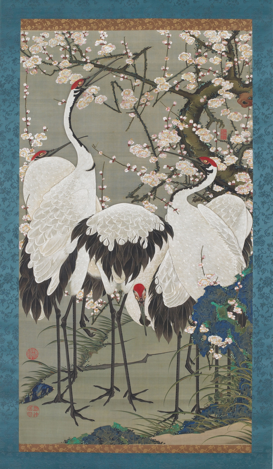 Plum Blossoms and Cranes from the Colorful Realm of Living Beings